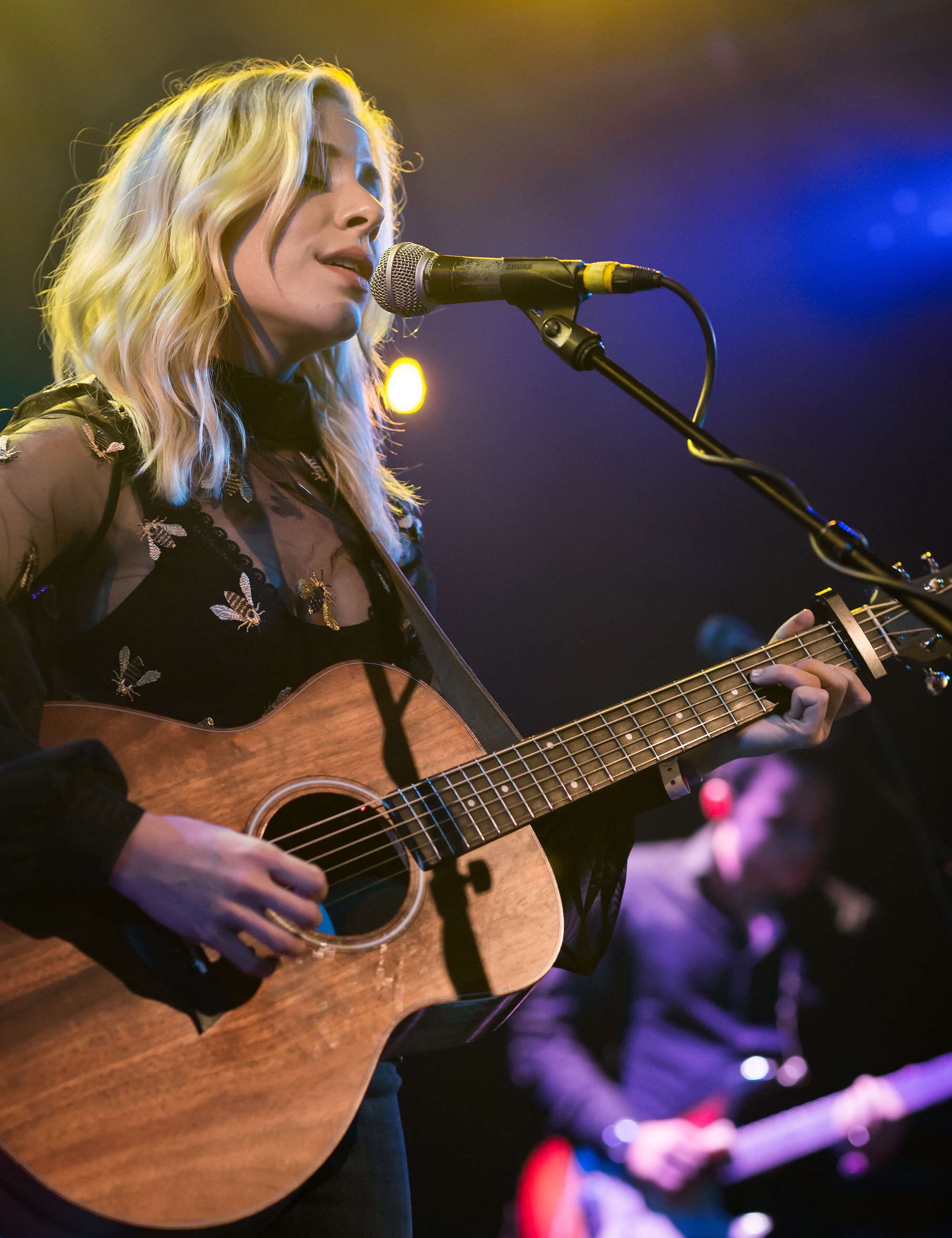 Skyler Day performing live at The Troubadour in Los Angeles, California, on Saturday, January 6, 2017.